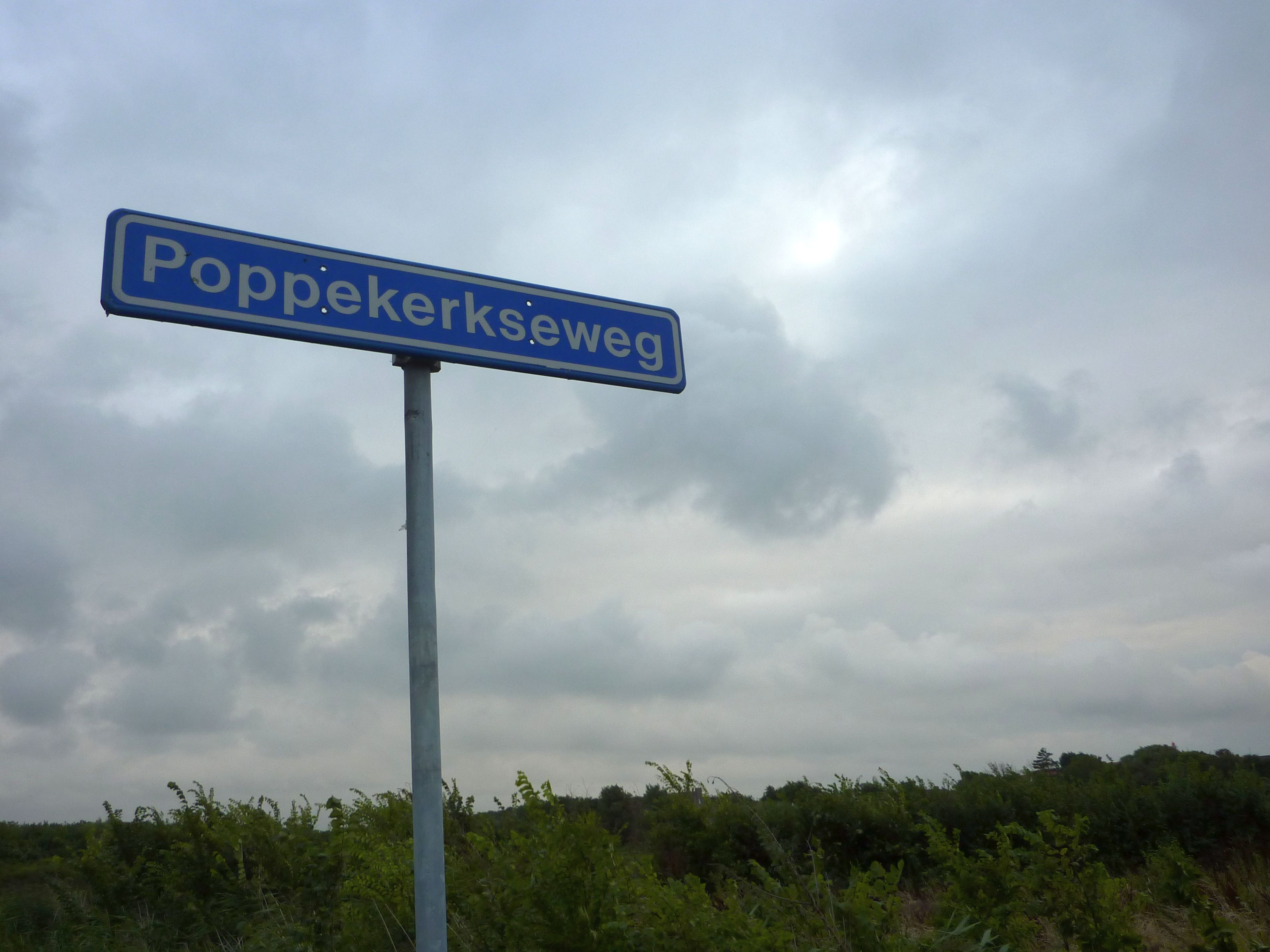 Poppekerke (near Westkapelle), street sign